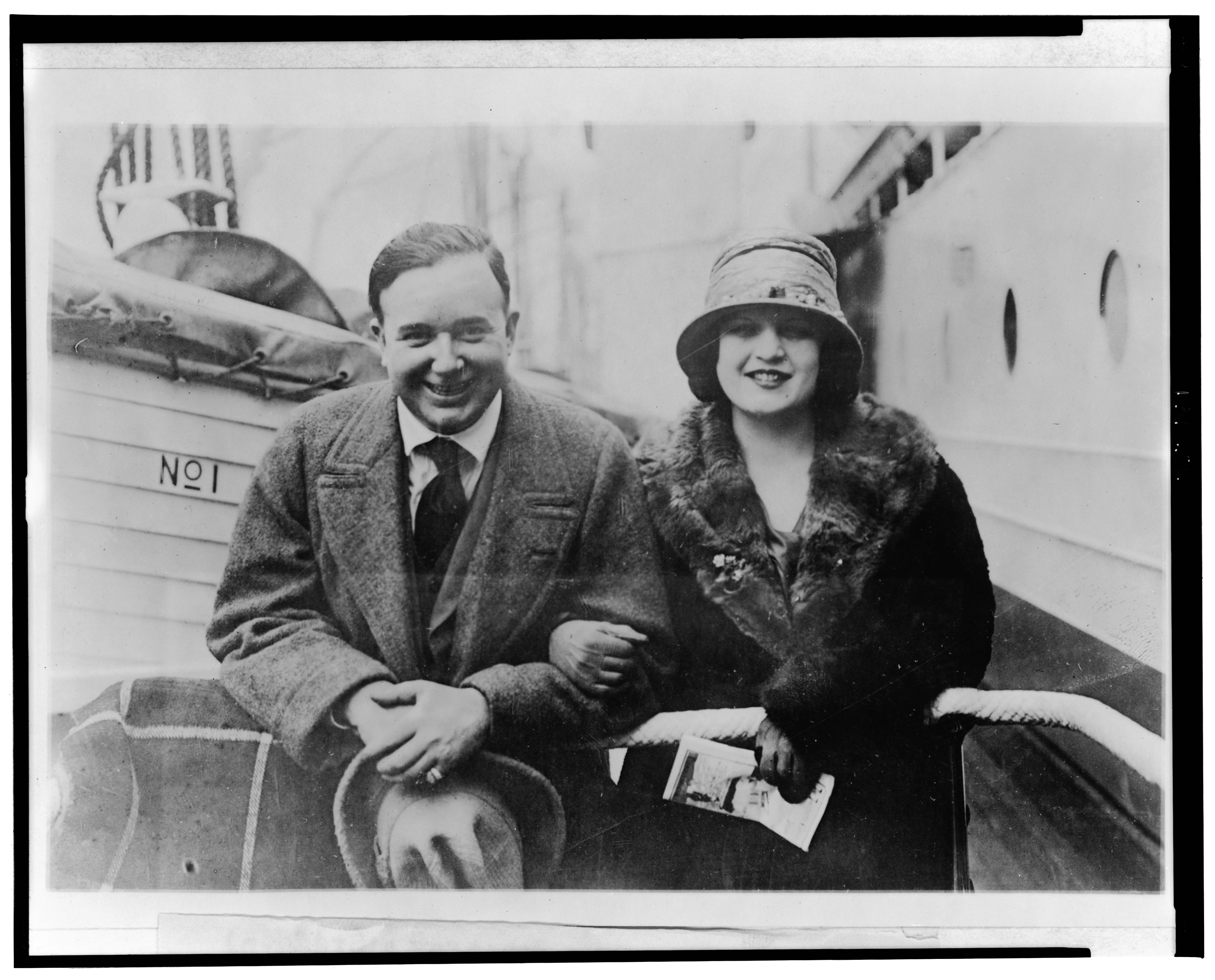 Female impersonator Julian Eltinge and a woman he identified as his wife, three-quarter length portrait, facing front, standing on the deck of the S.S. Siberia at dock in Yokohama-shi, Japan. Eltinge is not known to have married, however.